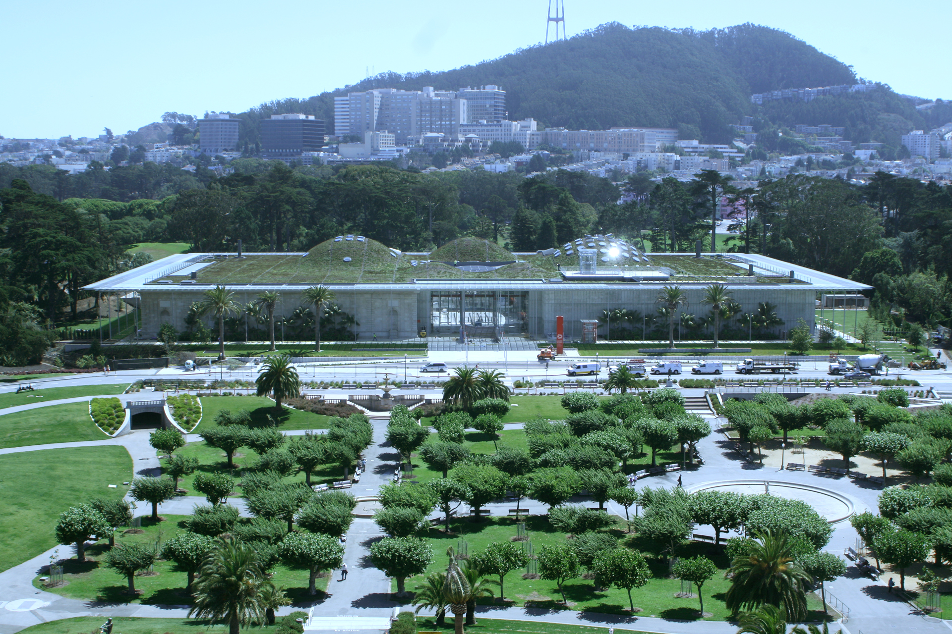 California Academy of Sciences beyond the Concourse plaza, in Golden Gate Park, San Francisco, California. The sustainable building, designed by Renzo Piano, opened 27 September,th, 2008. Image from the tower of the de Young Museum, August 28, 2008. Camera: Canon Rebel XTi with 20-30mm lens near mid-range, image extensively color corrected (windows were tinted), rotated .25 deg and contrast enhanced, reduced 50 percent.